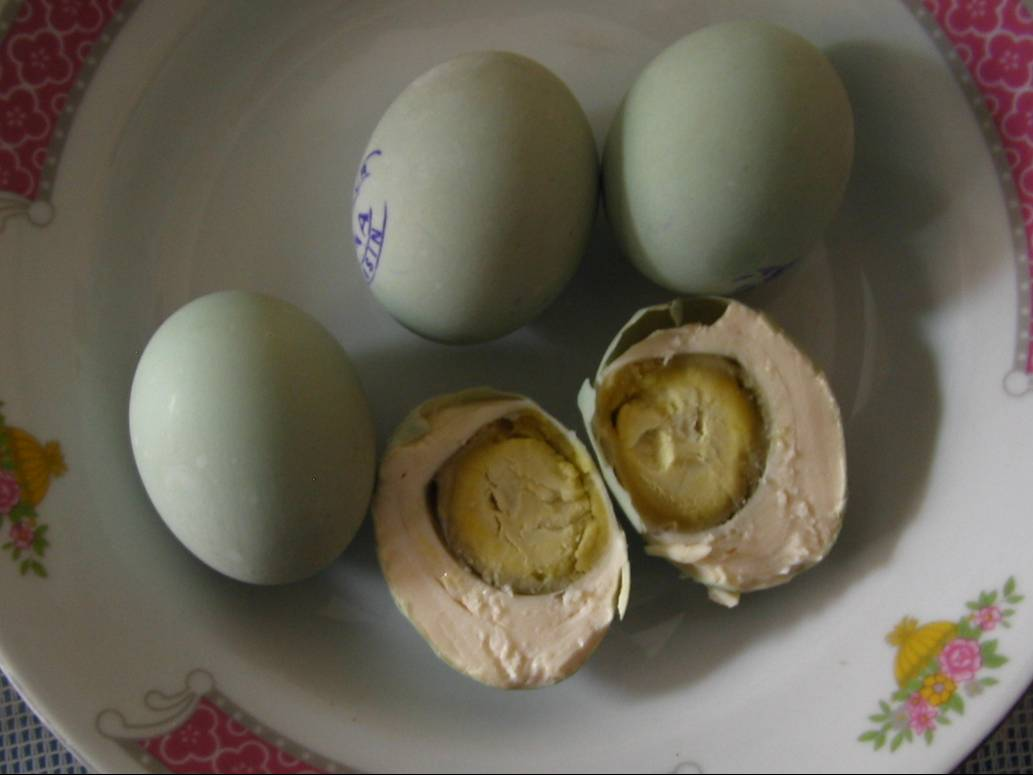 Telur asin (salted eggs), a popular cuisine from Indonesia